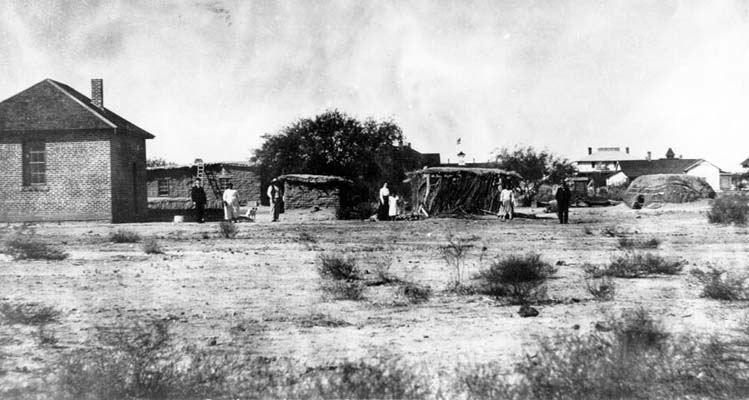 Pima Indian dwellings of traditional and brick construction.